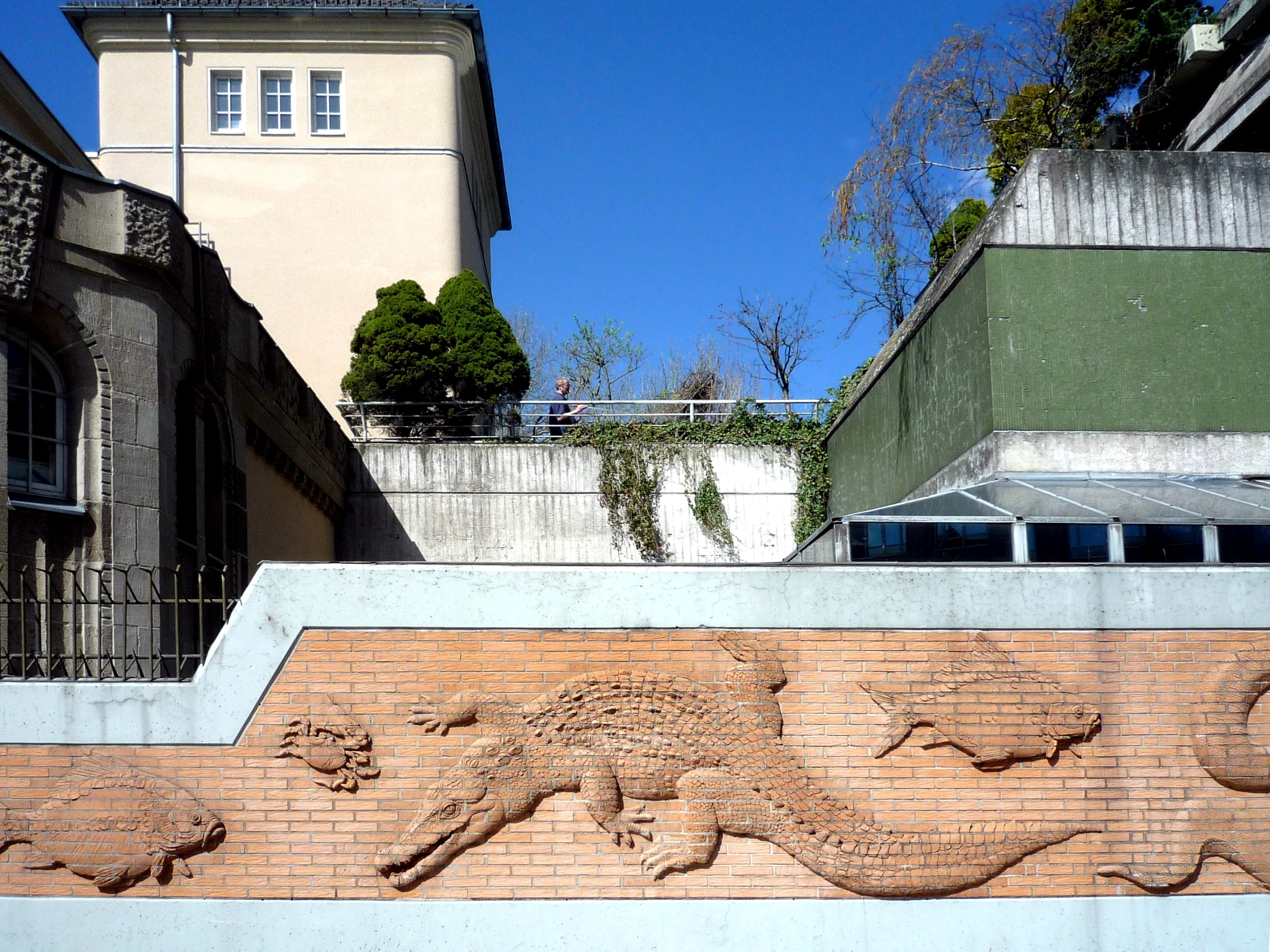 Zoo Aquarium Berlin, passage between the main-building (left) and the enlargement.